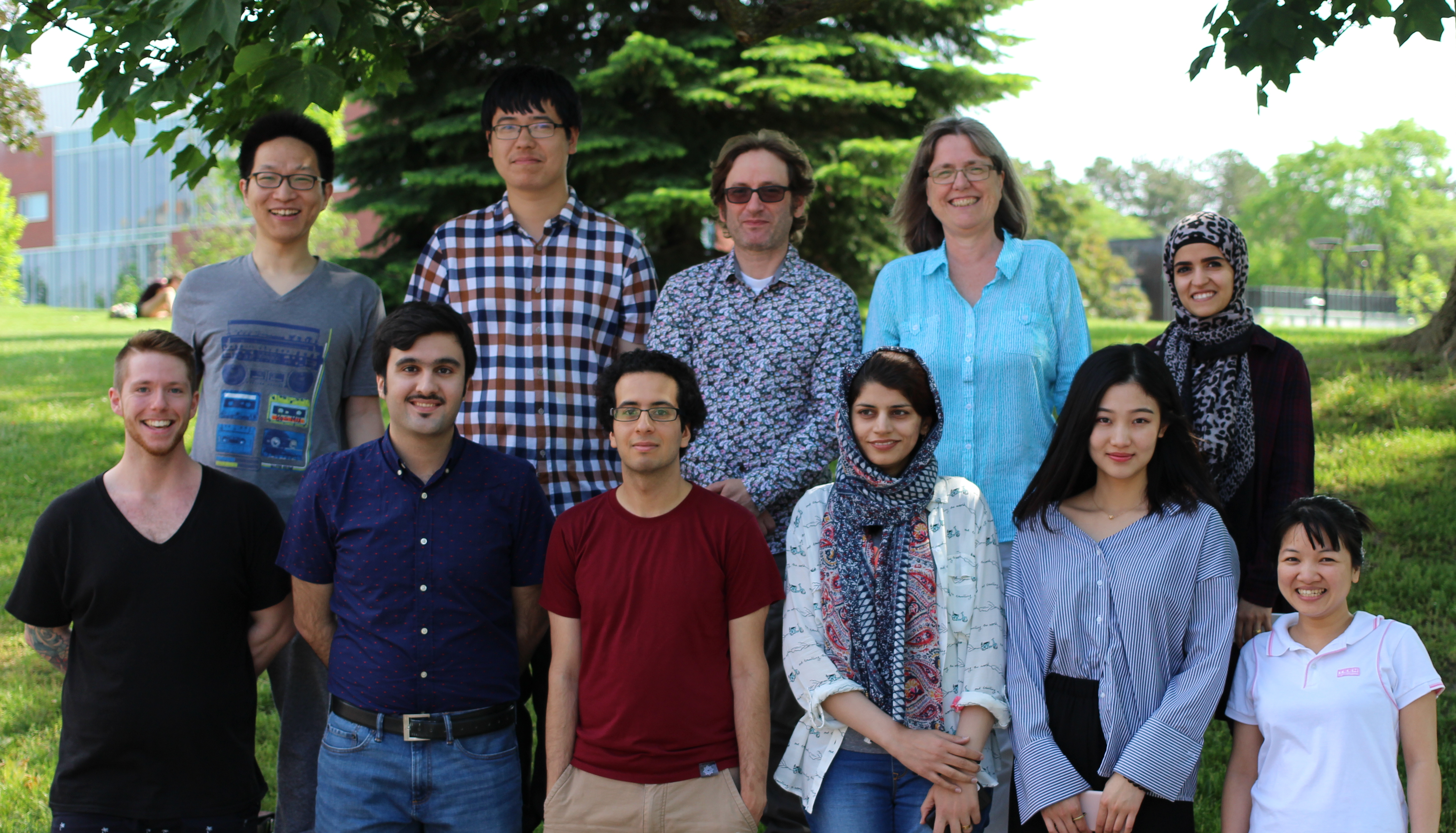 Donna Strickland's group at University of Waterloo